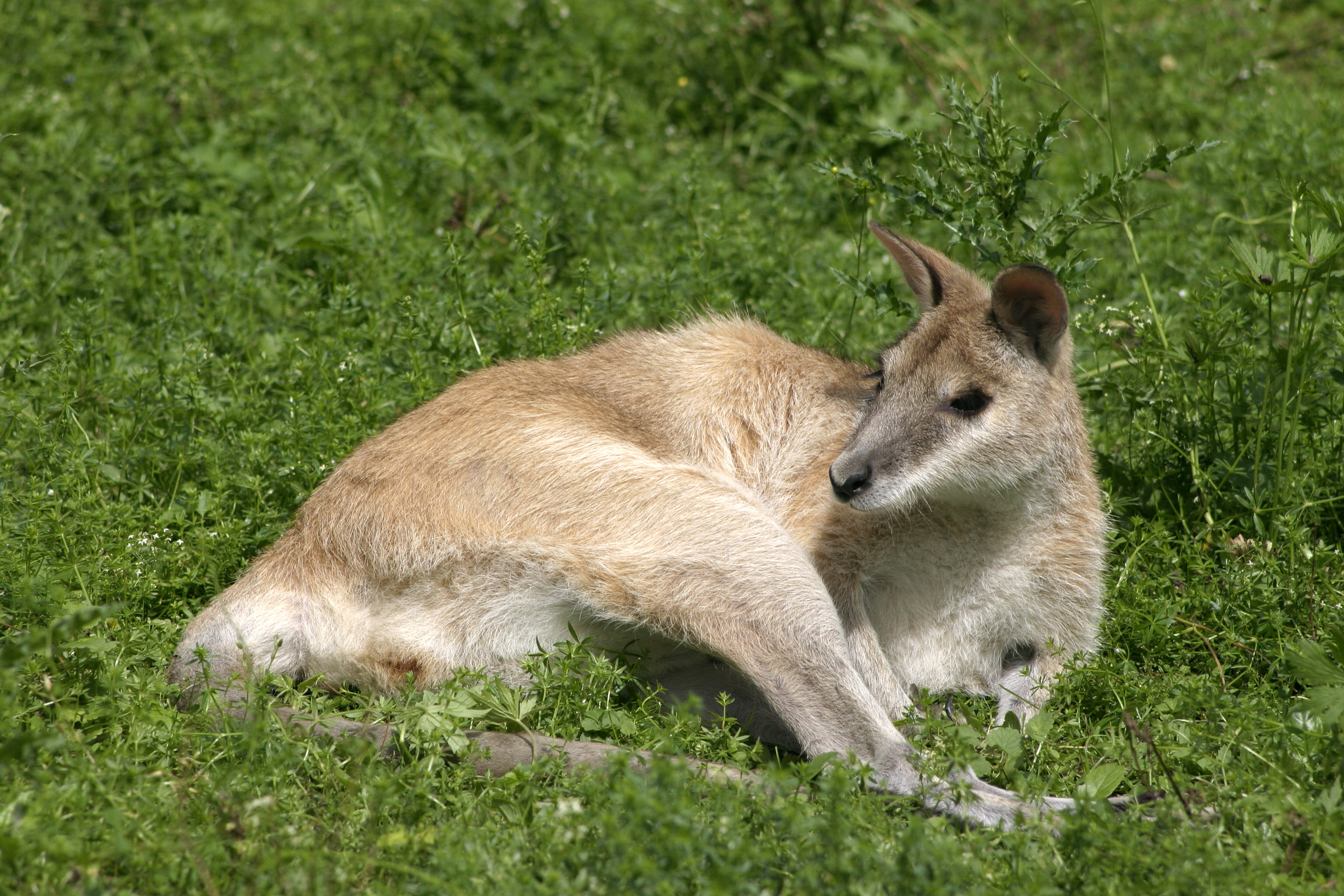 Agile Wallaby